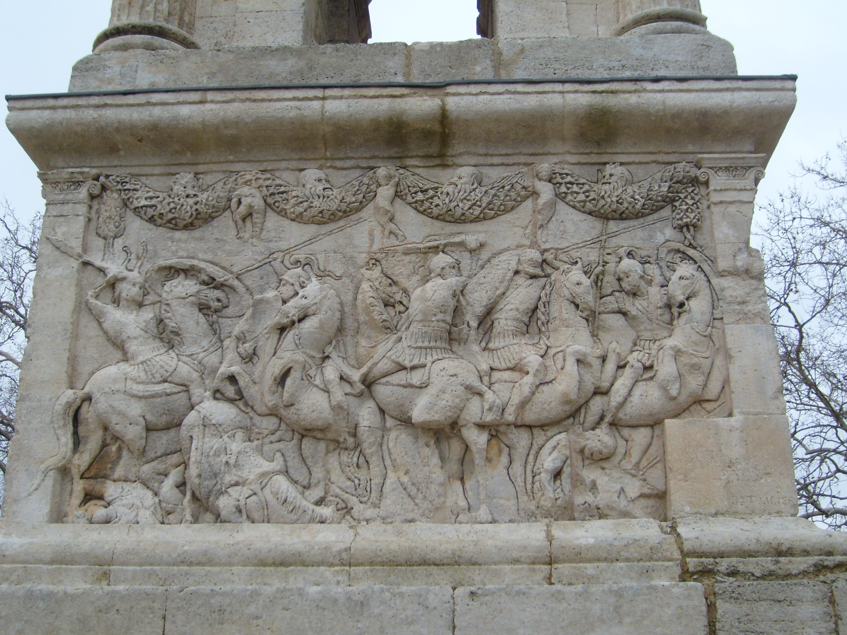 Roman mausoleum of Julii at Glanum, north face (1st century BC)